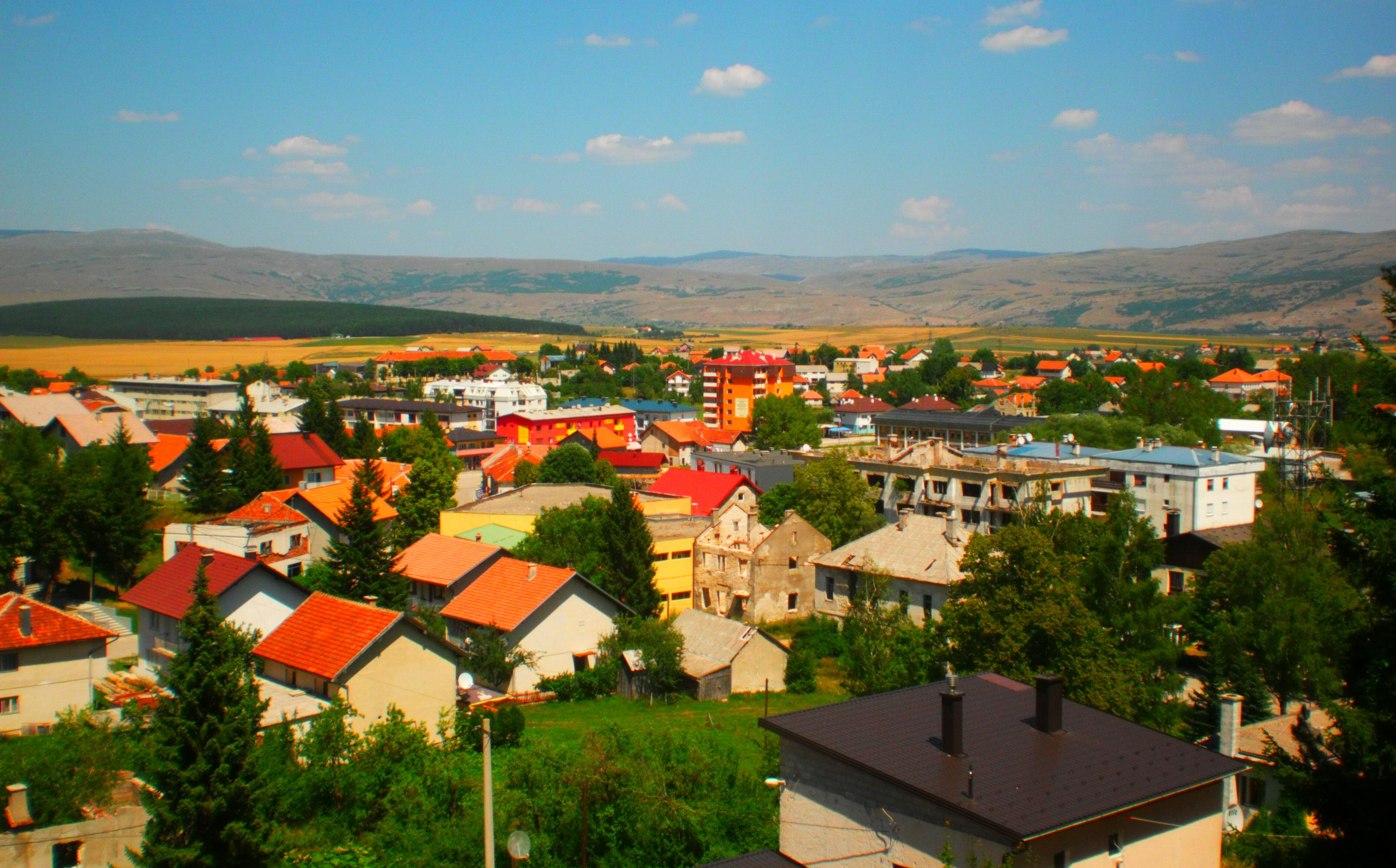 Panoramic view of Glamoč